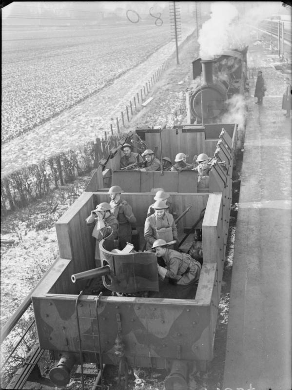 Polish troops man an armoured train on a line at North Berwick in Scotland. The train was armed with a 6-pounder tank gun, two Boys anti-tank rifles and six Bren guns. For view from the ground see File:Polish troops in armoured train UK 1941 IWM H 7033.jpg